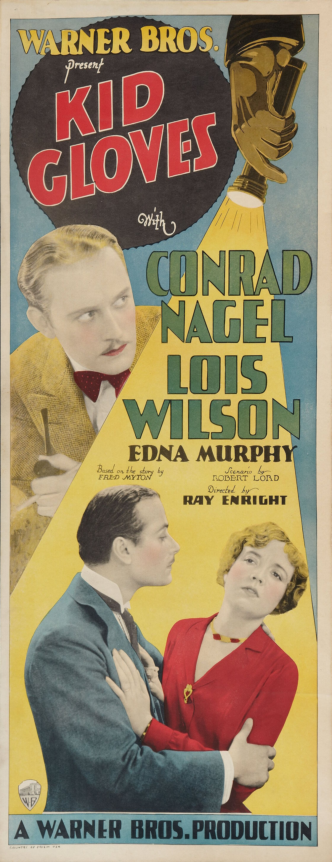 This is a poster for the 1929 American part-talkie drama film Kid Gloves.